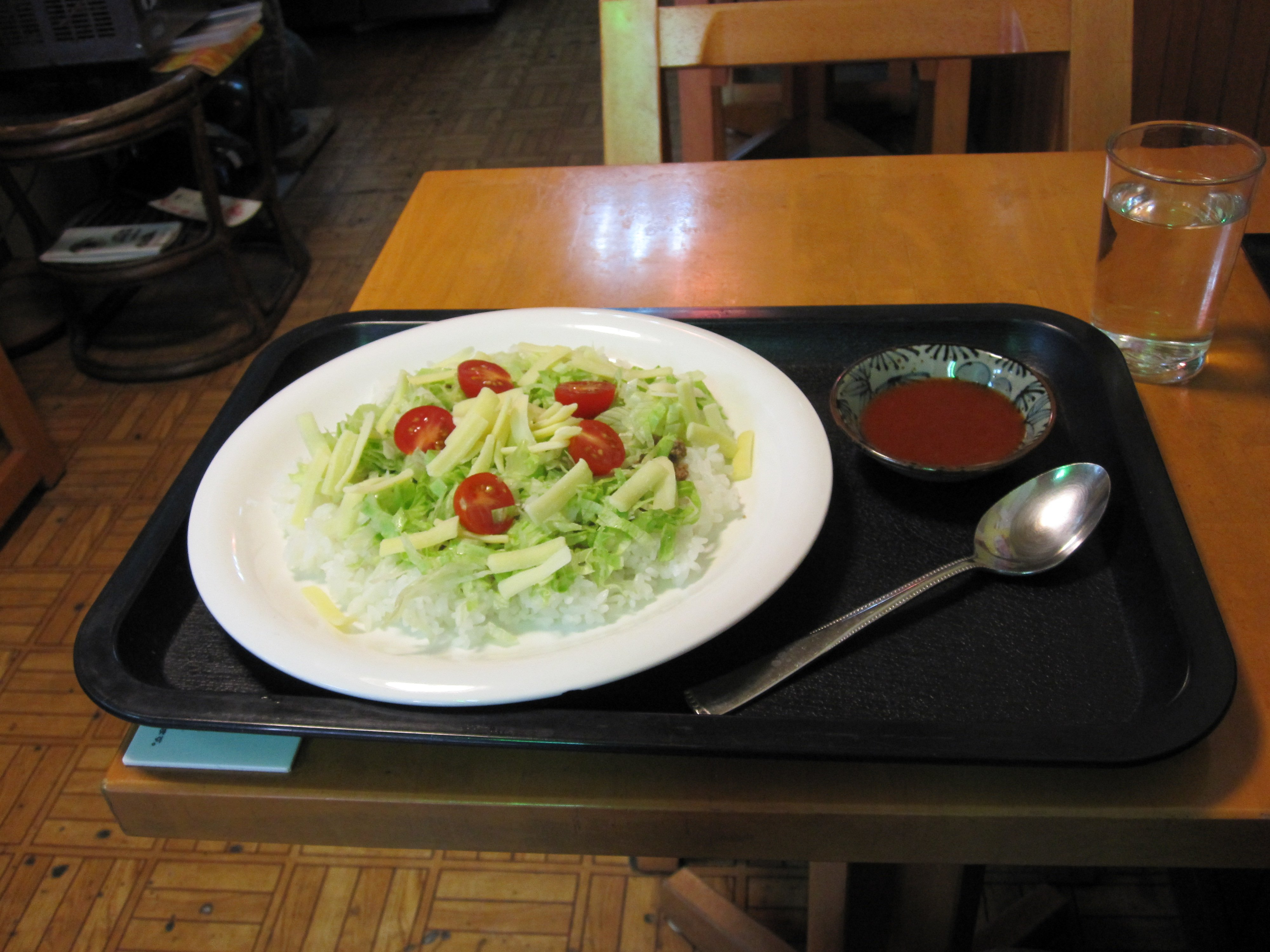 Tako-raisu served in a restaurant on Kokusai-dori, Naha City.